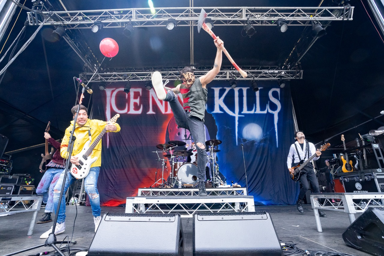 At Good Things Festival in Melbourne